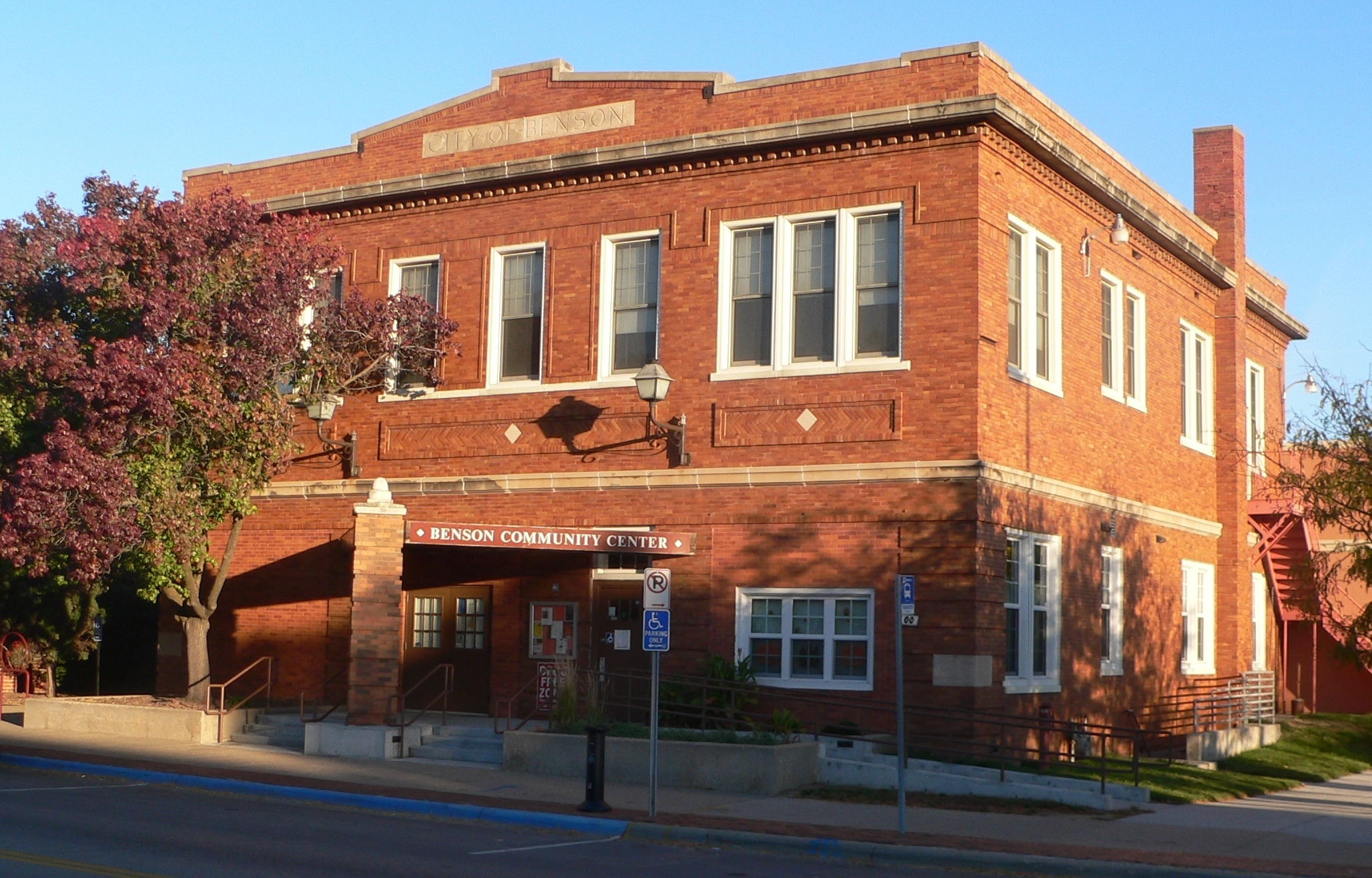 Benson Community Center, located at northwest corner of 60th Street and Maple Street in Omaha, Nebraska; seen from the southeast.